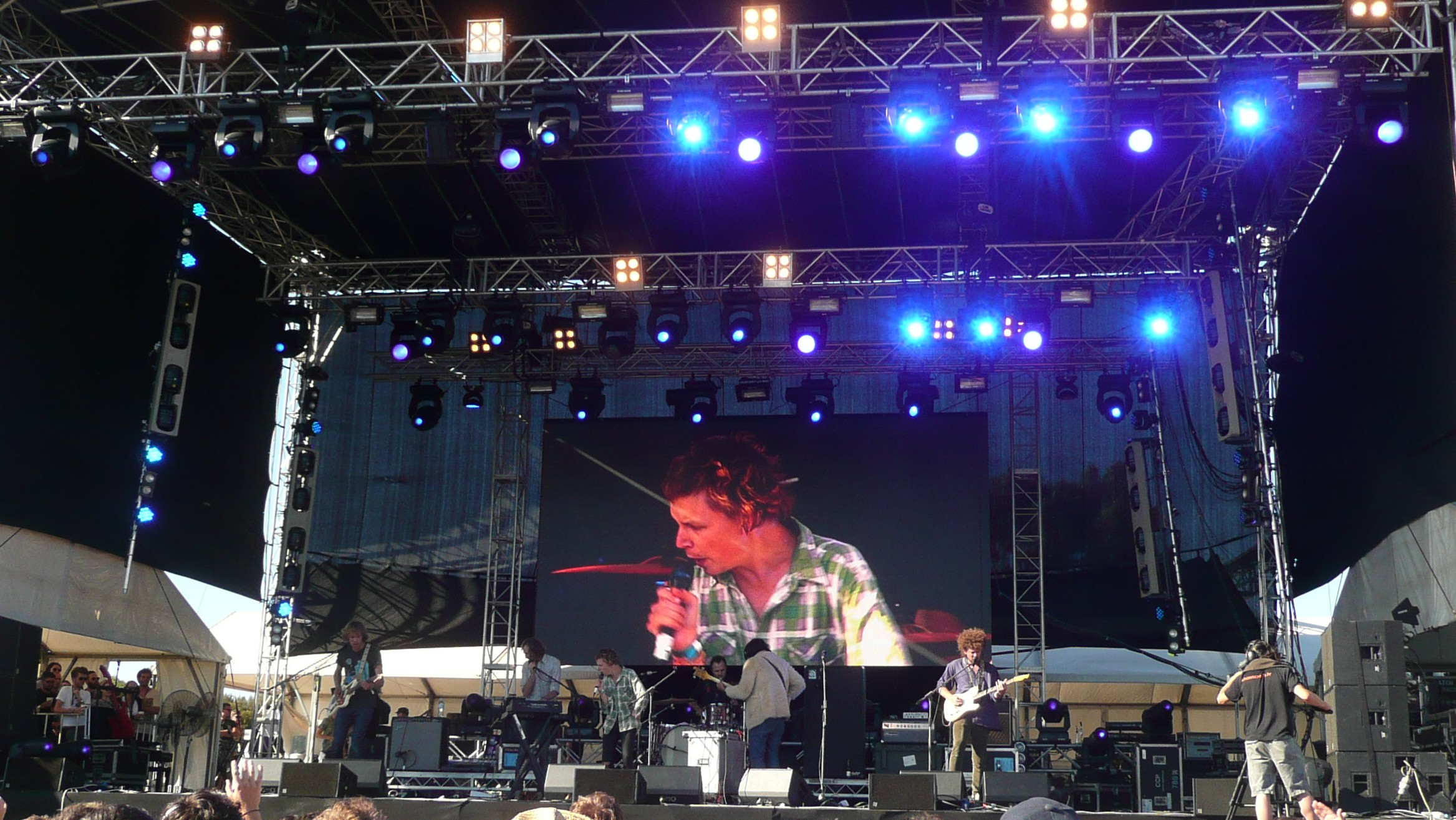 Band POND performing at the 2014 Southbound music festival in Busselton, Western Australia.